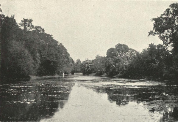 The Acharya Jagadish Chandra Bose Indian Botanic Garden is on the west bank of the River opposite Garden Reach.